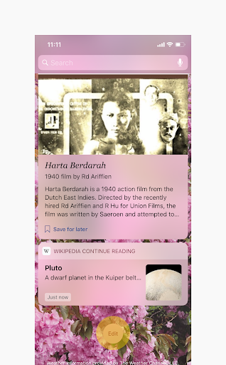 Screenshot from the Wikipedia iOS app for FAQ purposes. This screenshot includes File:Pluto in True Color - High-Res.jpg which was creared by NASA and is in the public domain, and File:Harta Berdarah poster.jpg, which is in the public domain.